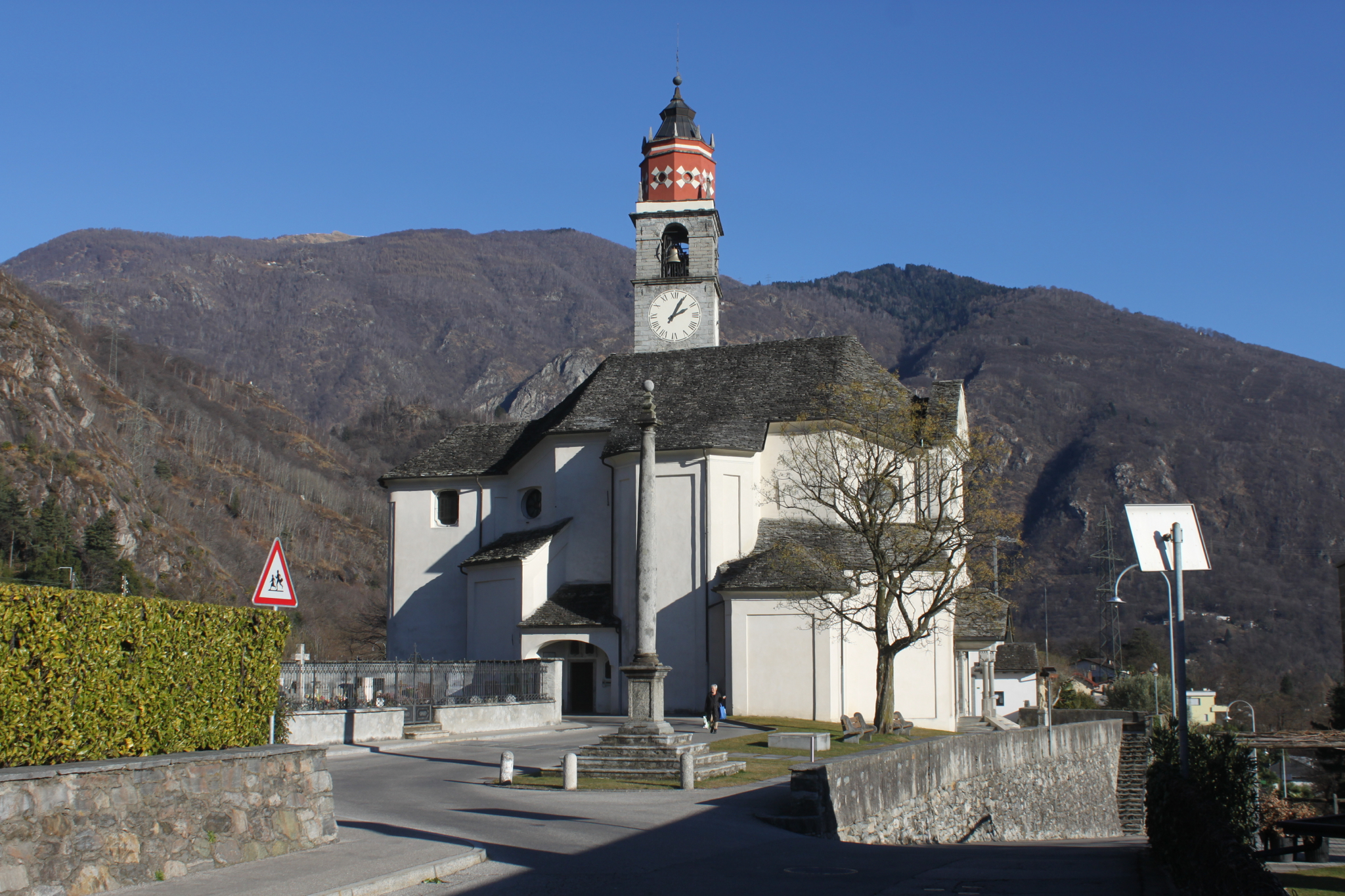 San Fedele church, Verscio.